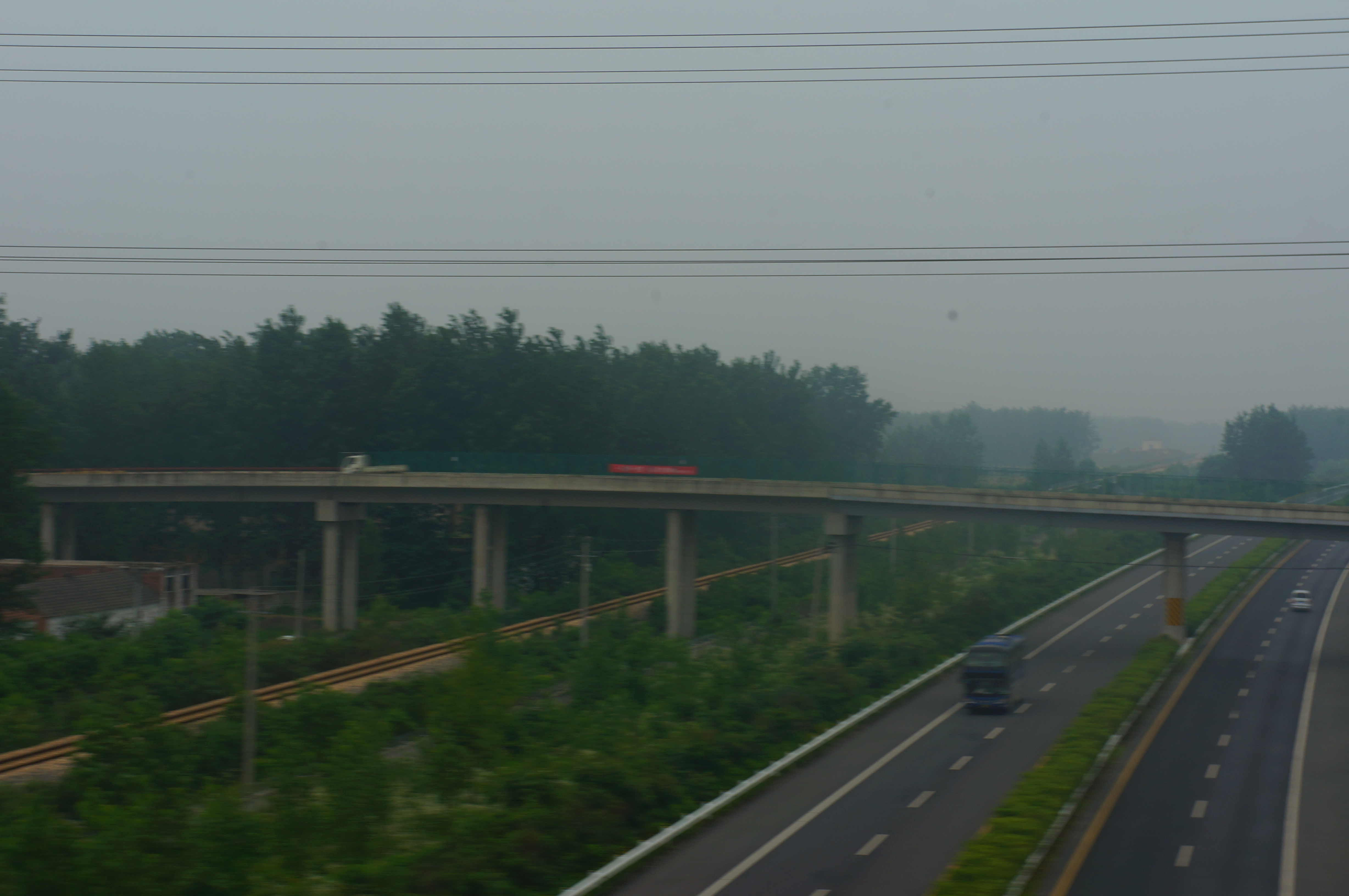 Suzhou–Huai'an Railway near Suzhou